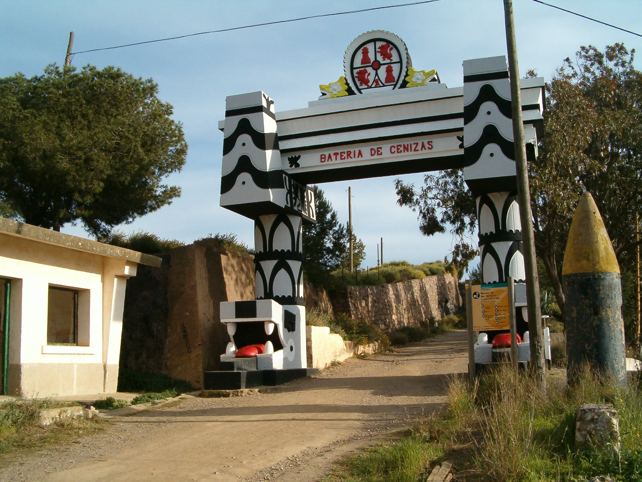 Entrance to canon battery Bateria de las Cenizas, near Cartagena, Spain